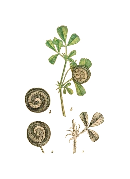 Illustrations of Medicago orbicularis.